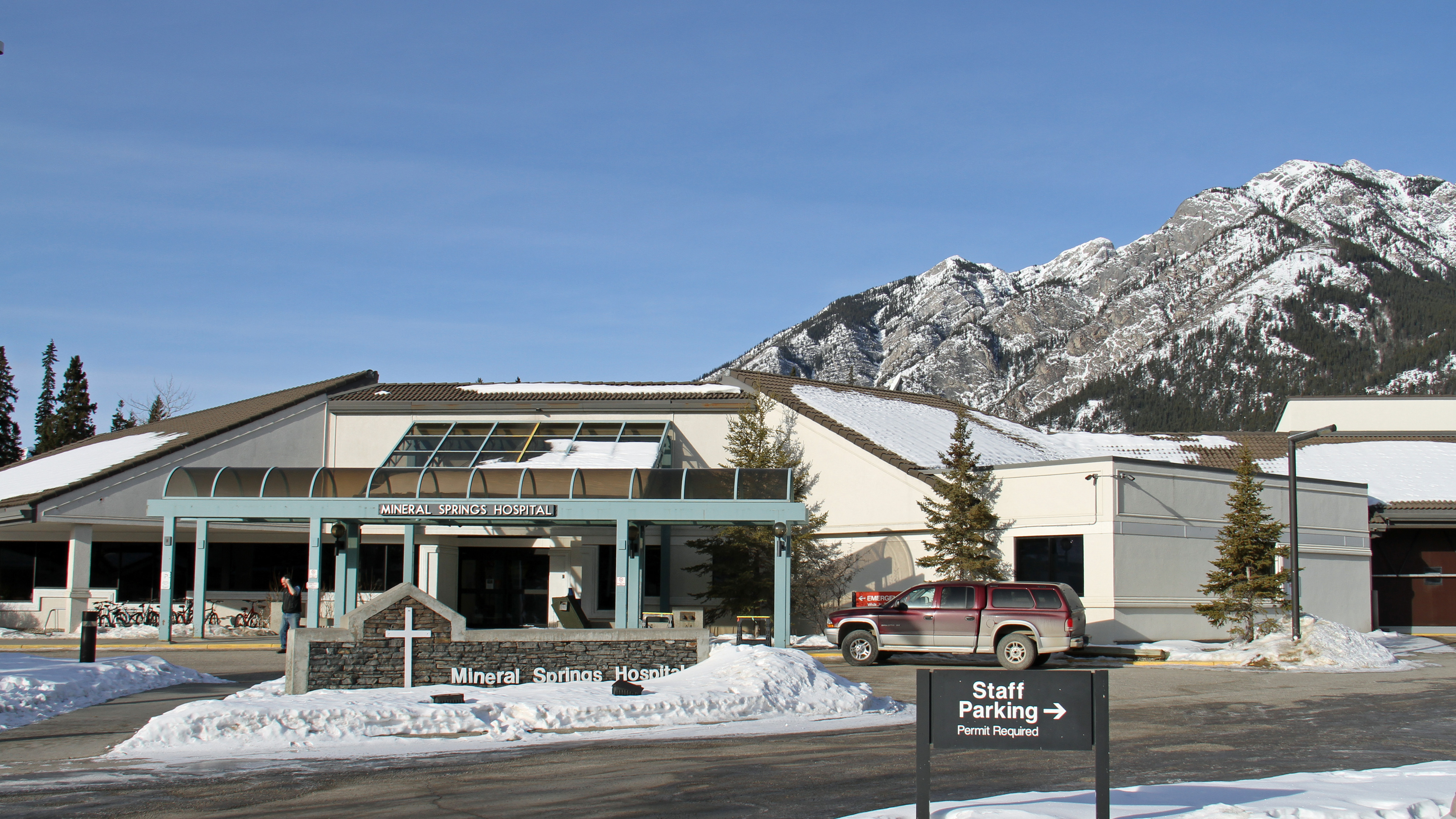 Banff - Mineral Springs Hospital in February